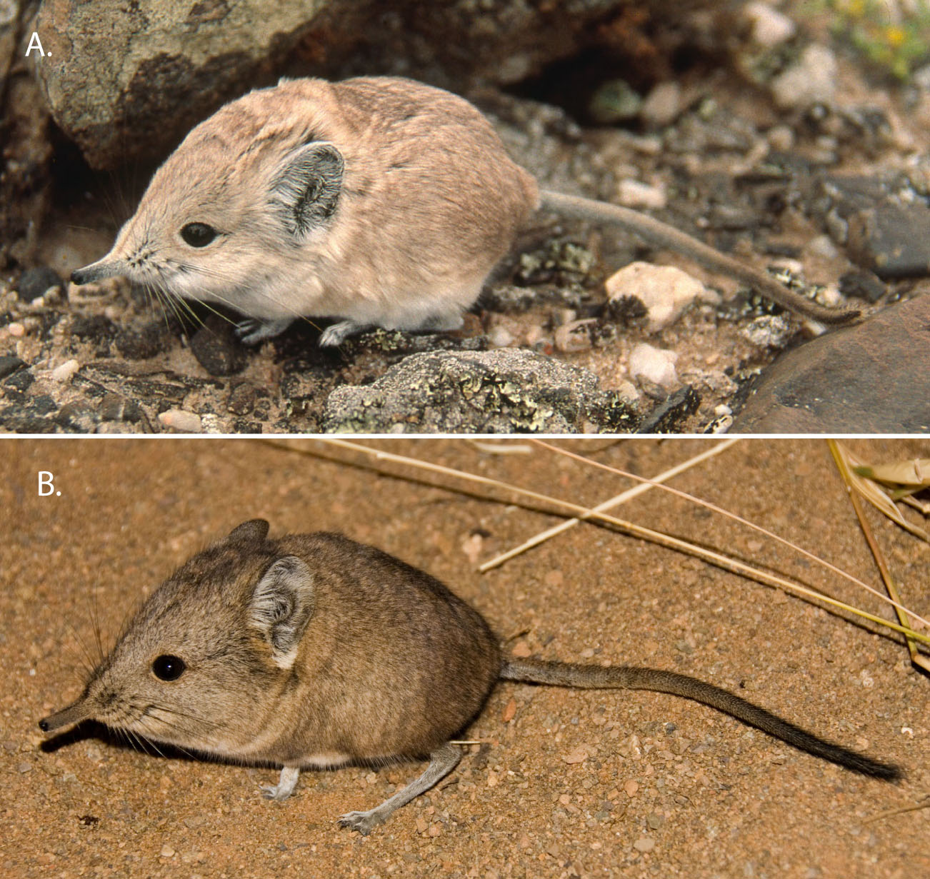 A (top). Macroscelides proboscideus flavicaudatus captured in the Namib Desert at Wlotzkasbaken, Namibia, on 25 May 2000. B (bottom). M. p. proboscideus captured in the Nama-Karoo at Loxton Commonage, Northern Cape, South Africa, on 21 March 2007 (Photo courtesy of Chris and Mathilde Stuart). Note the light coloration of the animal from the Namib Desert compared to the specimen from the Nama-Karoo.